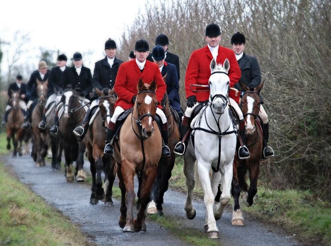 The field of the Tipperary Foxhounds hacking between draws